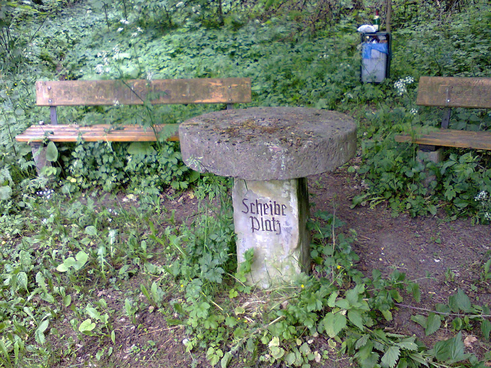 Gottfried Scheibe resting place in Seebergen